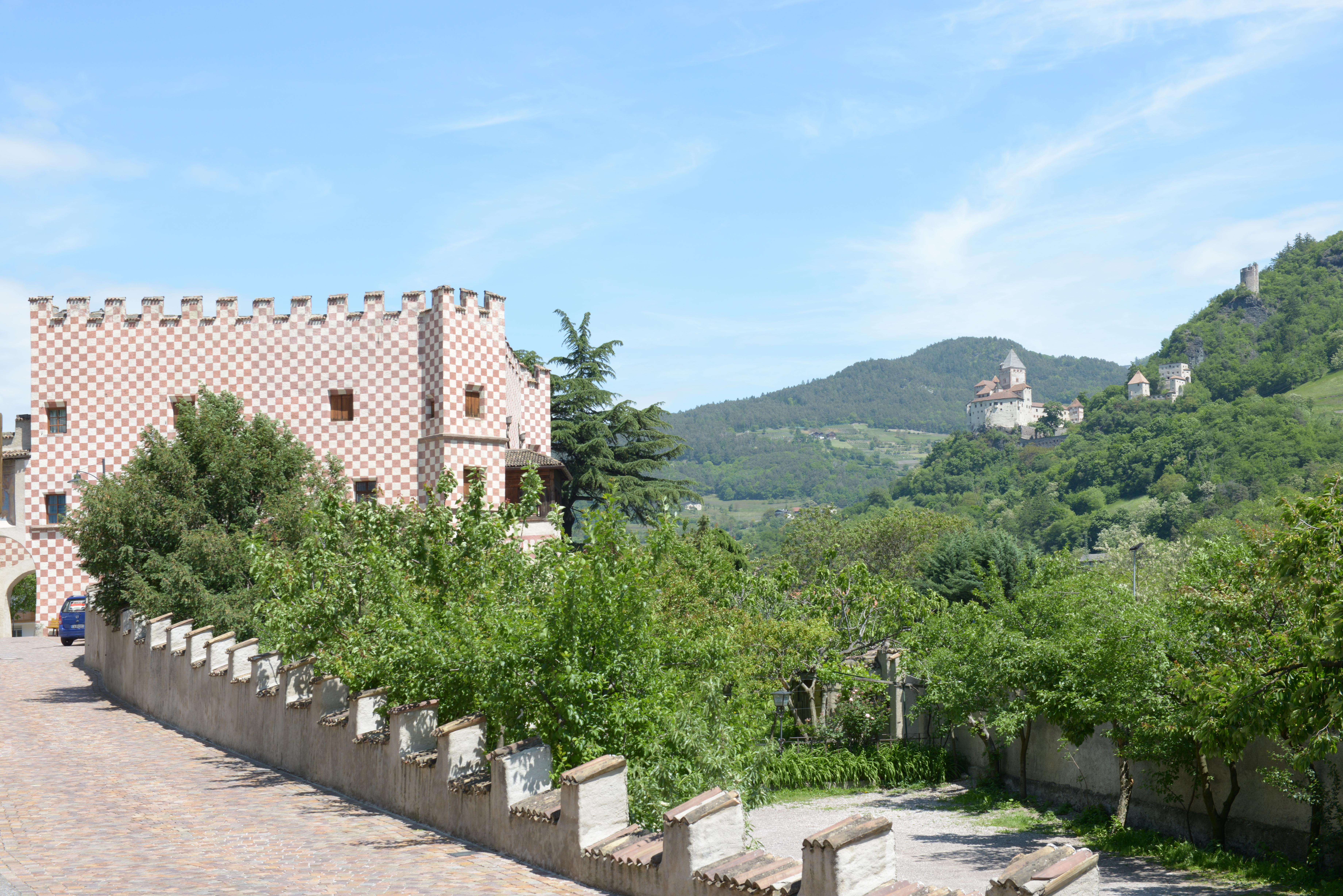 Castel Friedburg, South Tyrol. The Trostburg in the background.